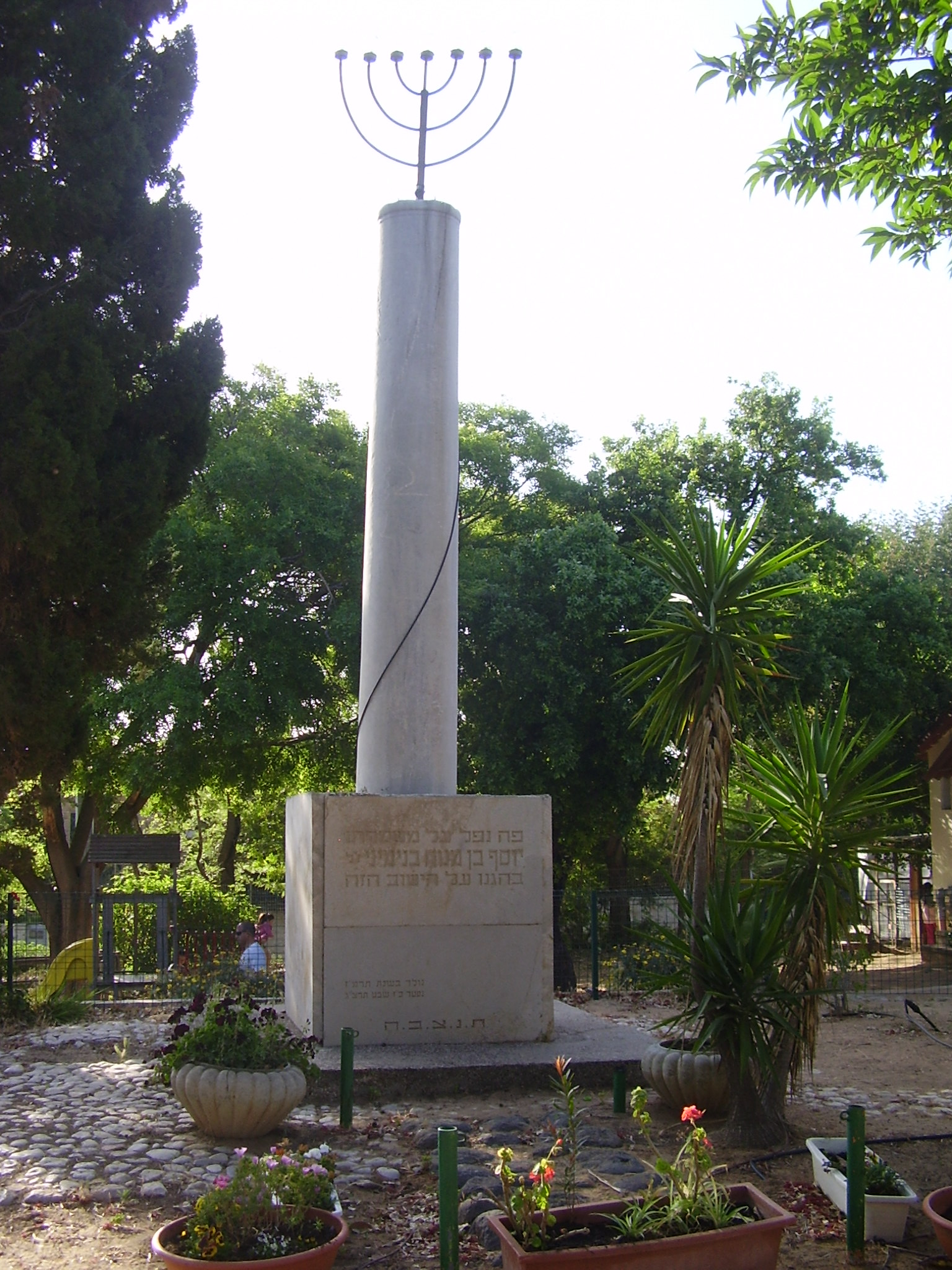 yosef binyamini (1879-1933) memorial in avihayil, israel